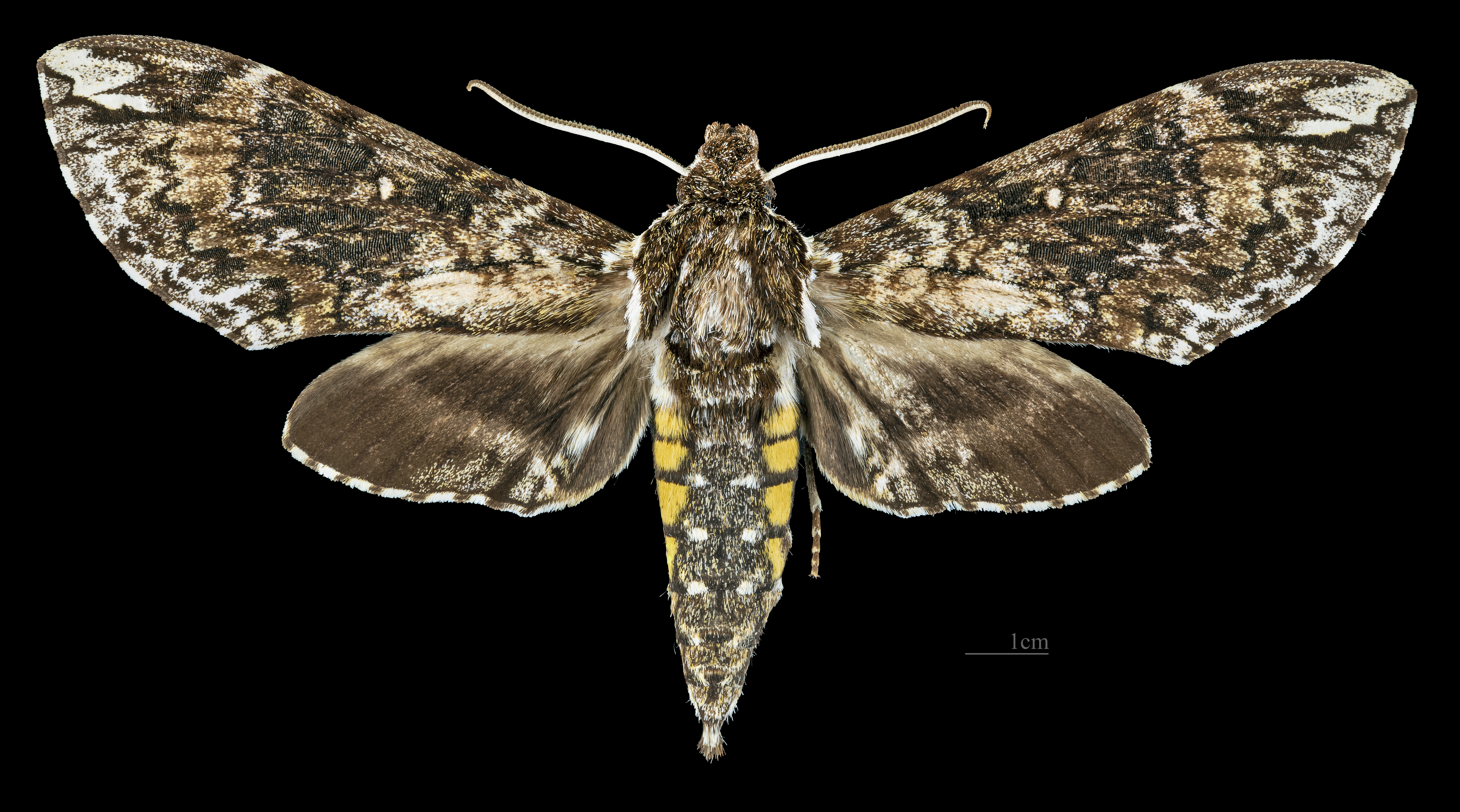 Manduca dilucida - Dorsal side Collection of the Mathematician Laurent Schwartz